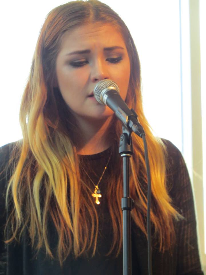 Masha performs for University of Missouri–Kansas City college students as part of UMKC Union Programming Board Unplugged series